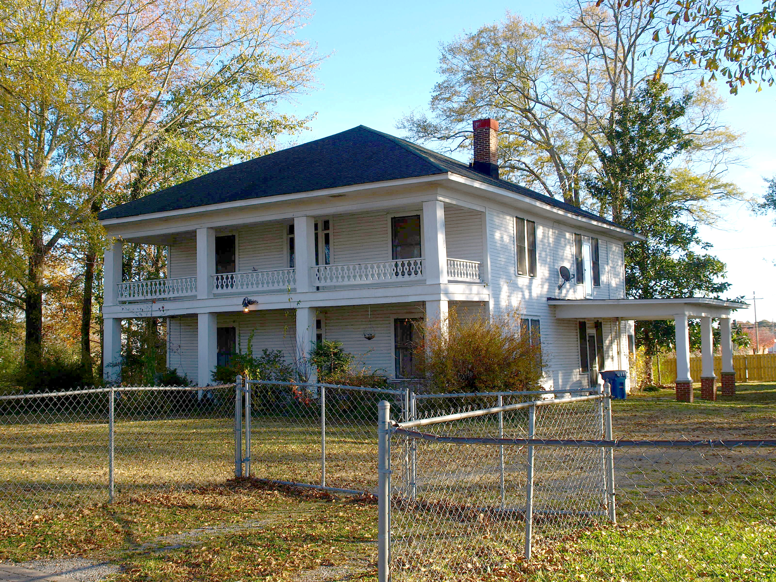 The Thomas A. Snellgrove Homestead in Boaz, Alabama, listed on the National Register of Historic Places